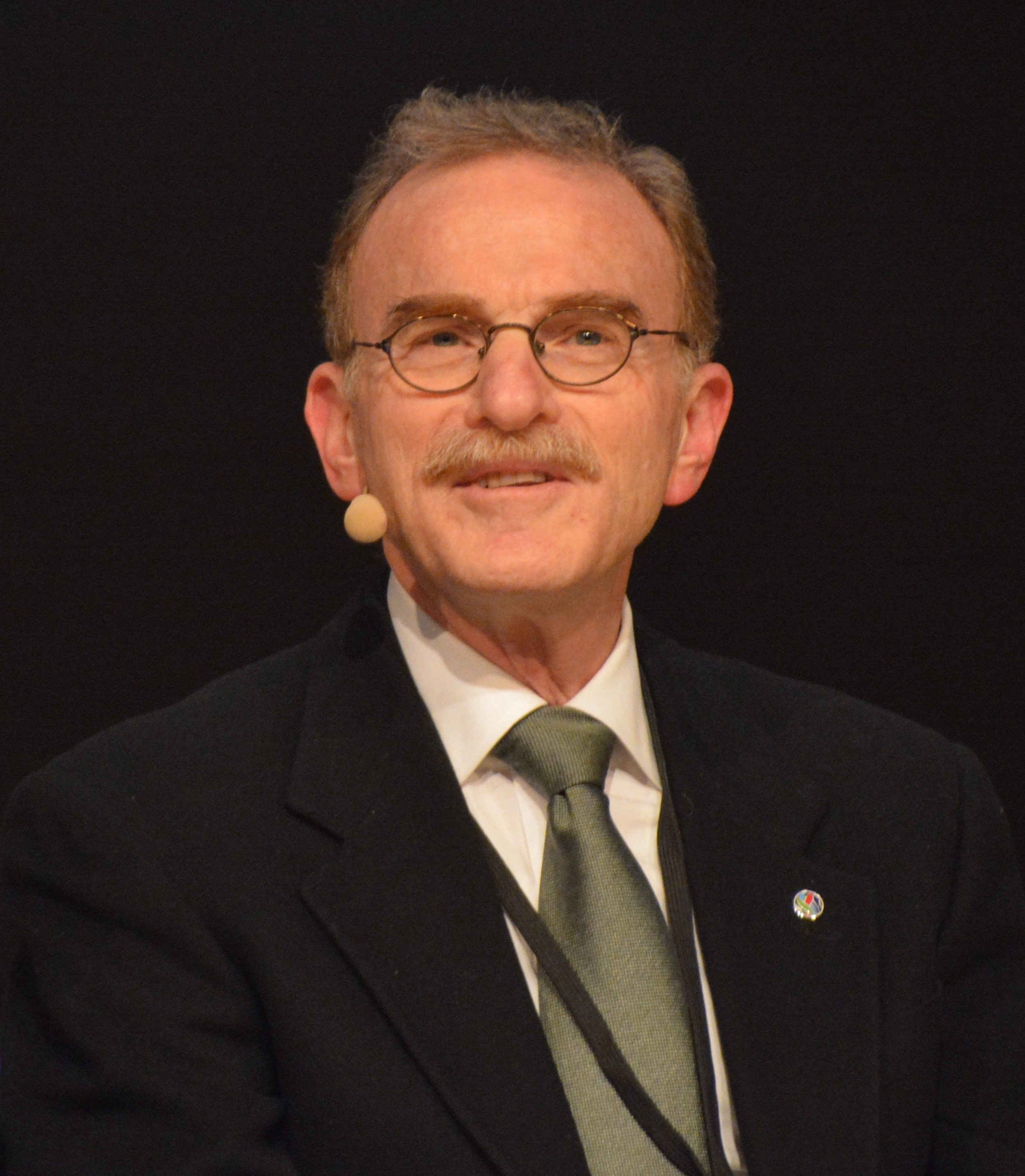 Randy Shekman